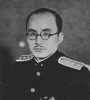 Genki Abe(The 44th and the 47th Superintendent General of the Tokyo Metropolitan Police Department)